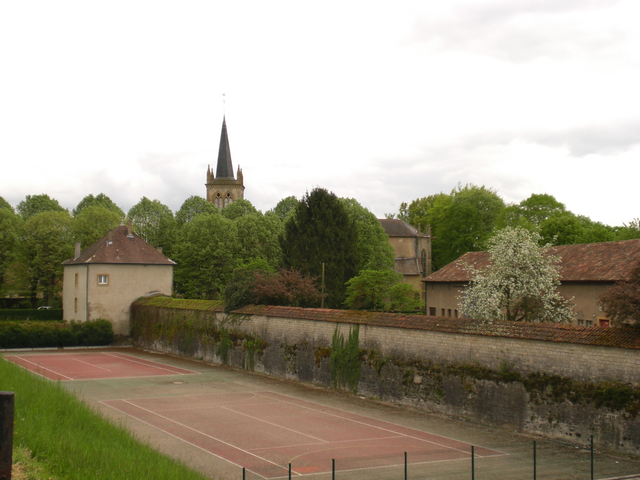 View at Pange/Lorraine from the former railway station